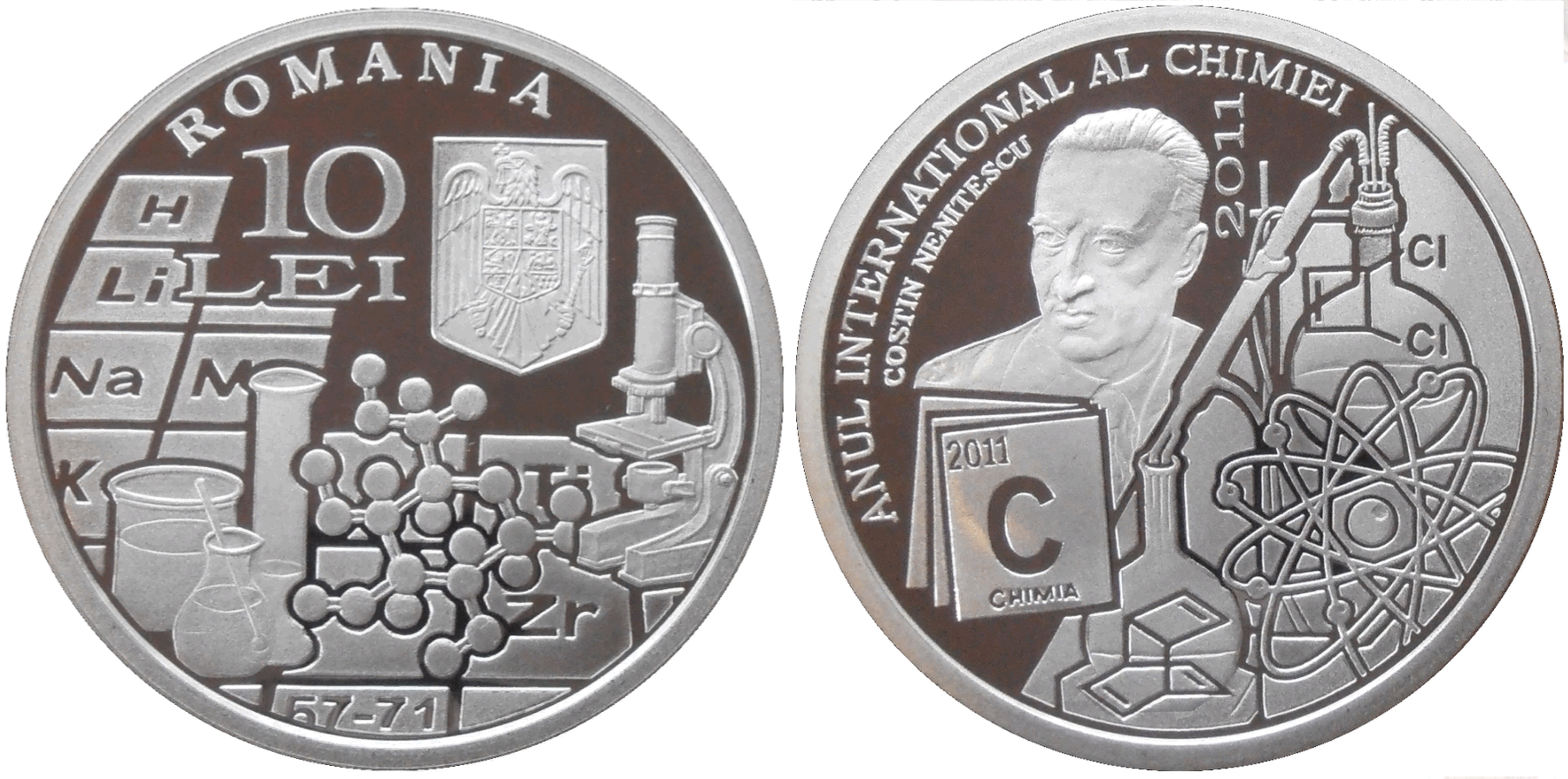 Romania 10 lei silver 2011 about the International Year of Chemistry 2011. Romanian Chemist Costin Neniţescu